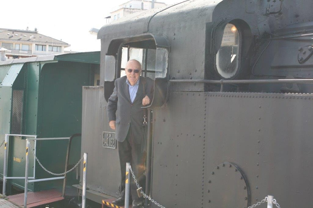 piero muscolino and a locomotive